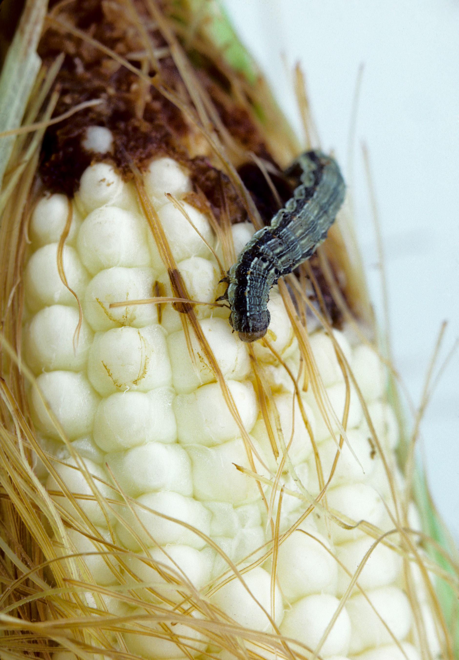 Corn Earworm (Helicoverpa zea) Caterpillar